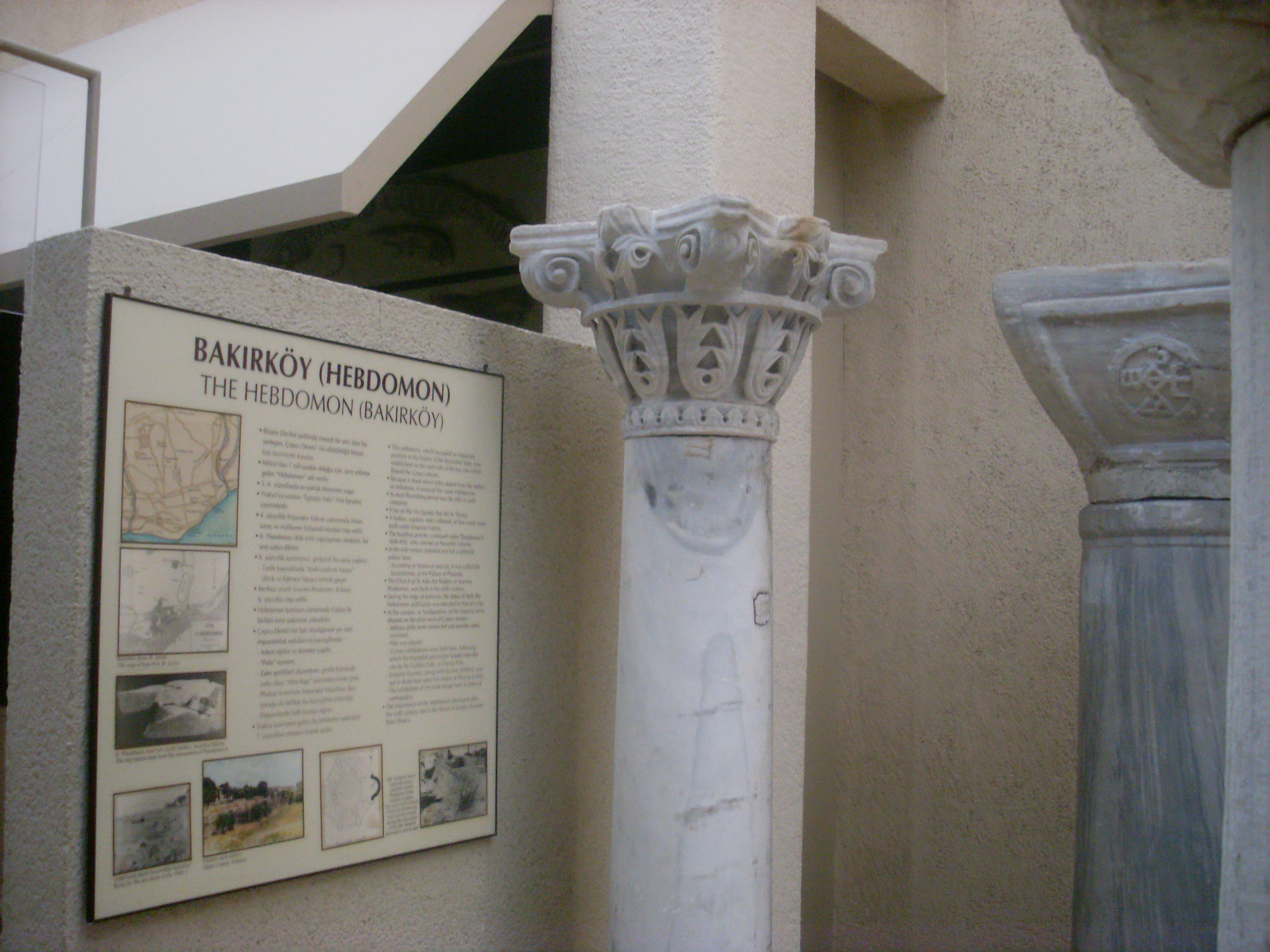 Istanbul Archaeological Museums - History of Bakırköy